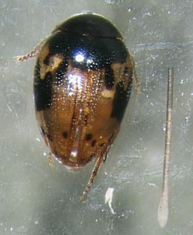 adult Noteucinetus nunni